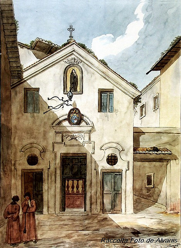 Sant'Andrea in Vincis by Achille Pinelli (1834)